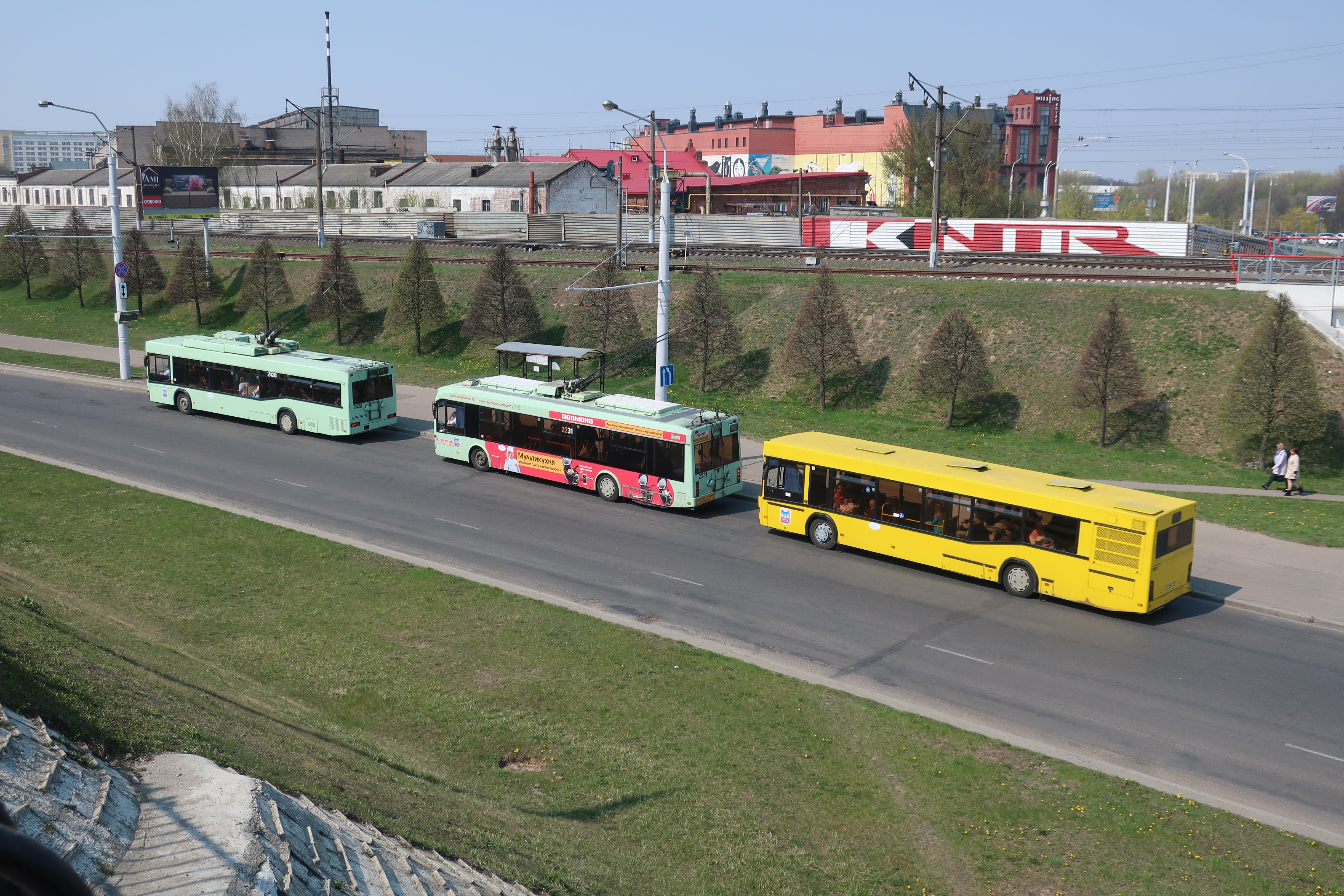 2 trolleybuses (MAZ-103T, AKSM-321) and 1 bus (MAZ-103) in Minsk